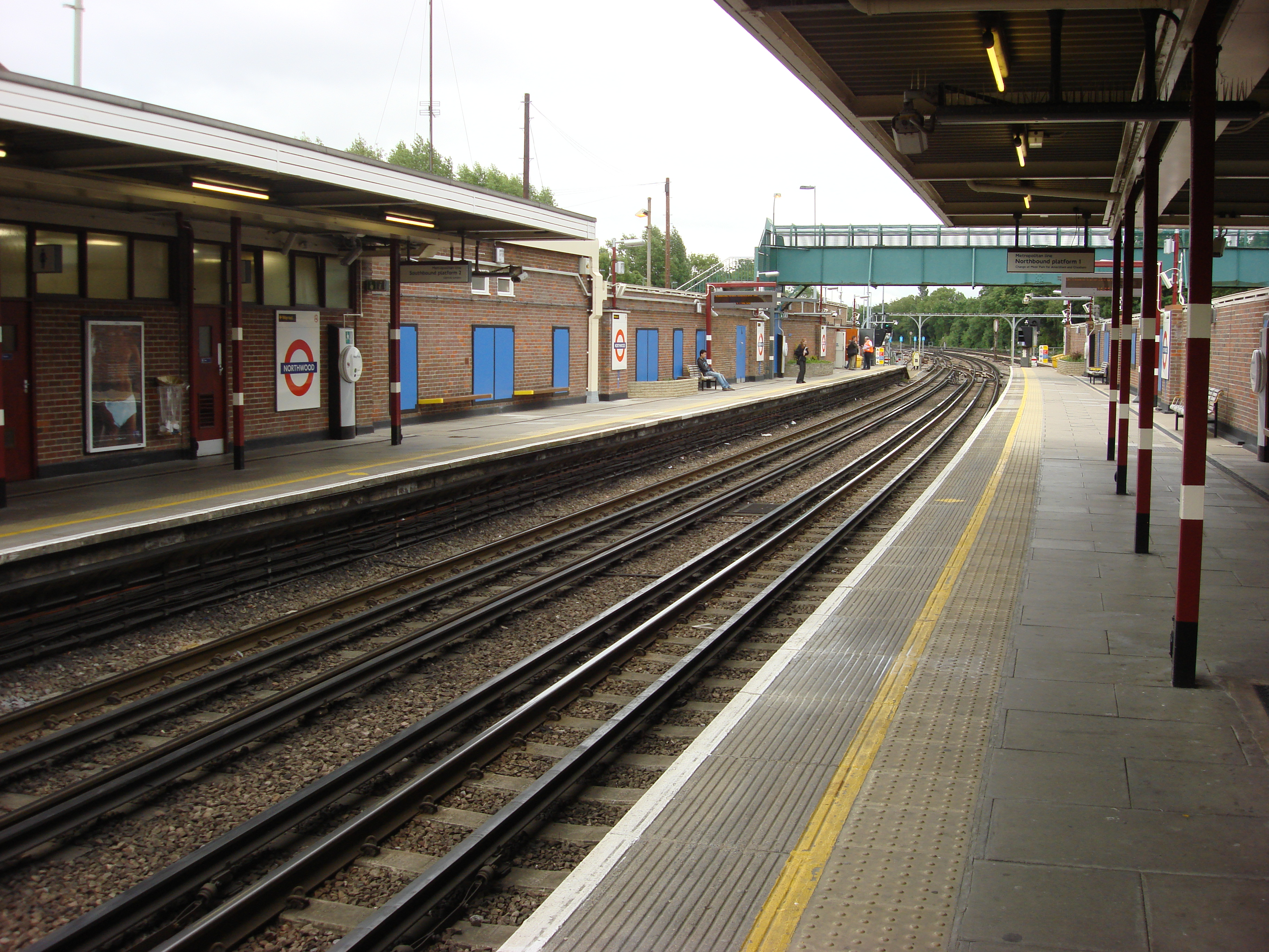 Northwood tube station, northbound platform looking south